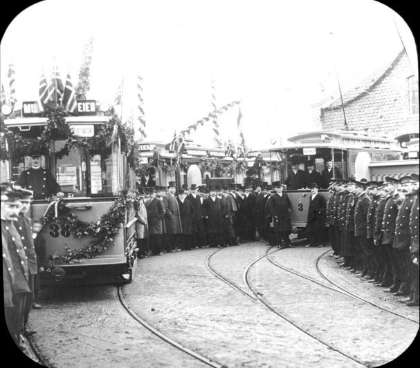 Kristiania Sporveisselskab opening its electric traction of the Vestbanen Line and the Grünerløkka Torshov Line. Picture taken at Torshov Depot.